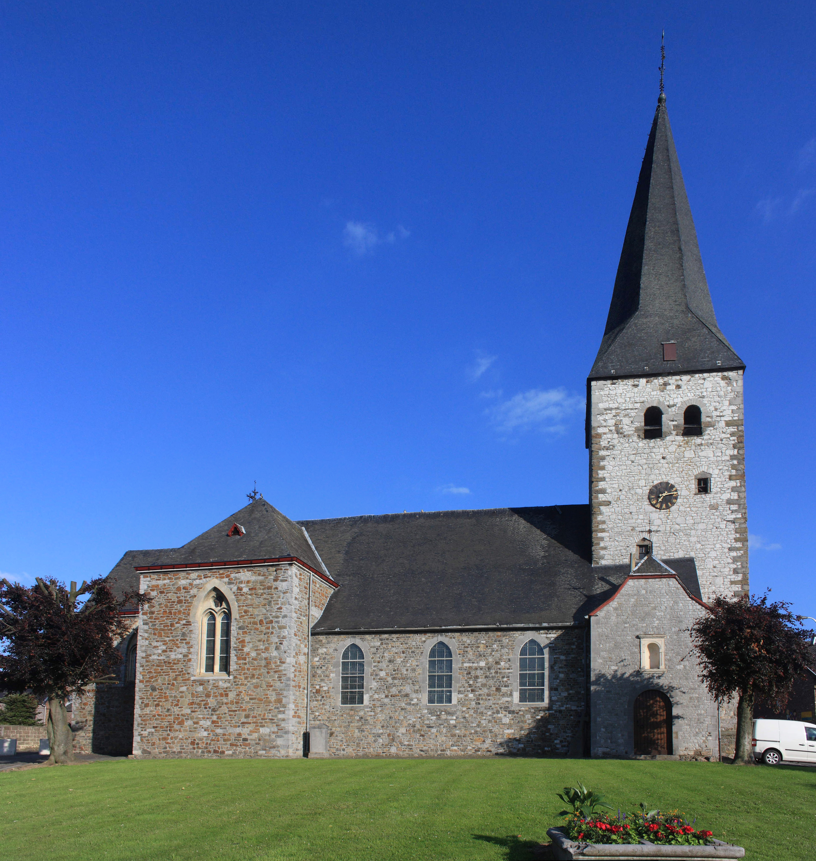 St Peter Church in Warsage, Belgium